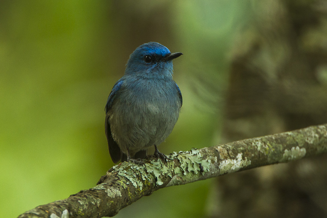 Pale Blue-Flycatcher - Bhutan_S4E0680